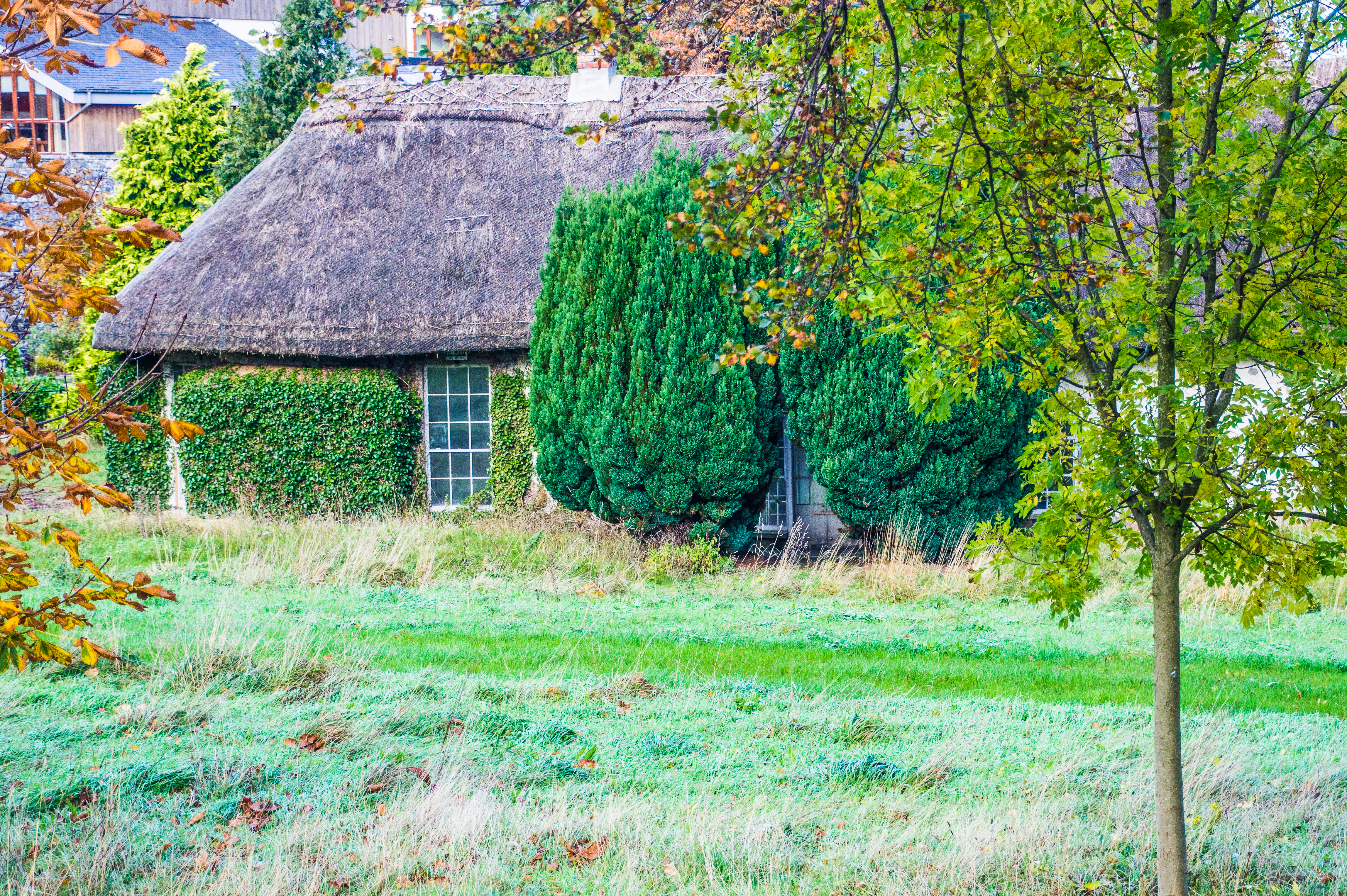 Casino House, Malahide, Republic of Ireland the intended home of the Fry Model Railway from 2019 following refurbishment